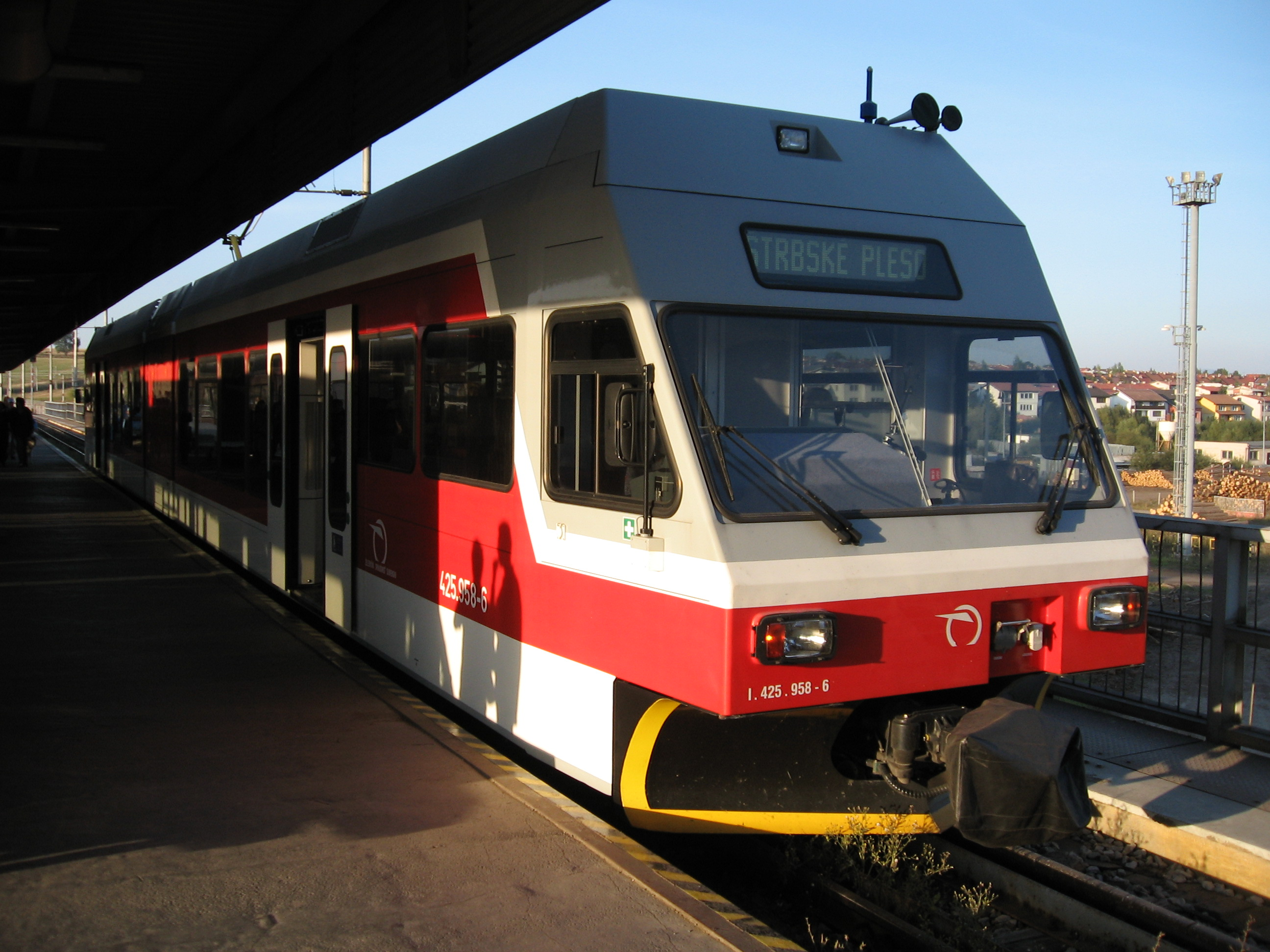 Tatra's electrical Railways, Poprad